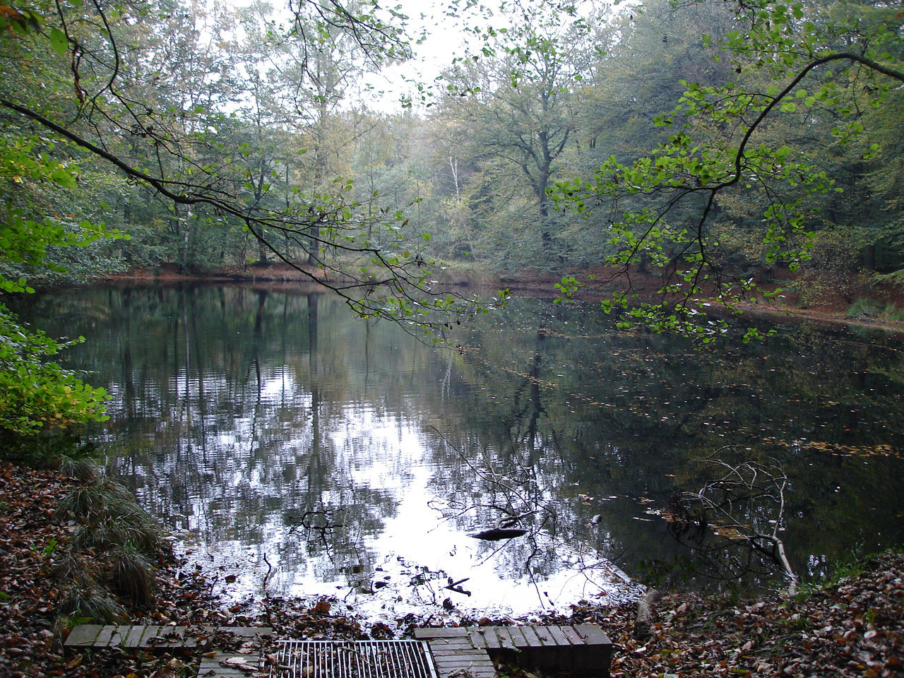 monastery Ihlow fishpond